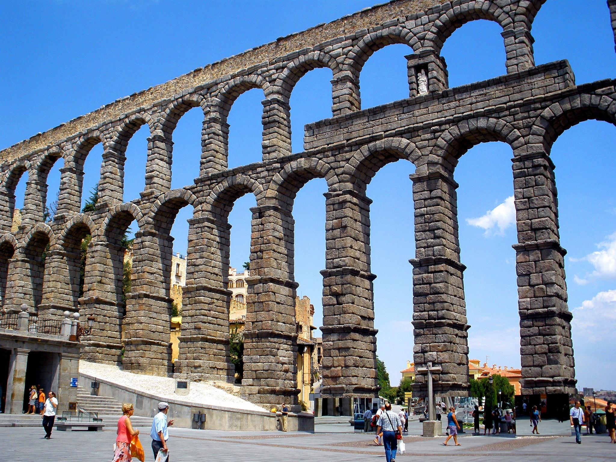 Acueducto de Segovia (Castilla y León, España)